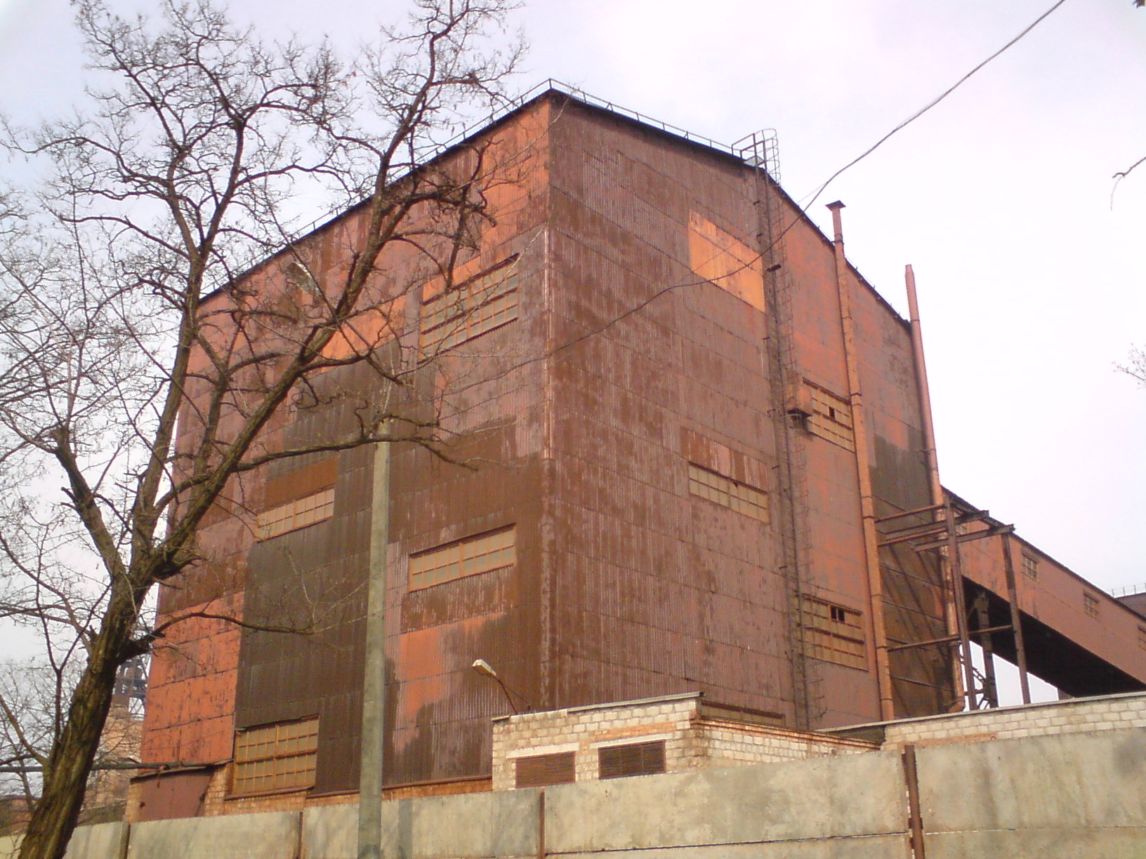 Iron ore decomposition plant near the 'Rodina' mine, Kriviy Rig, Ukraine